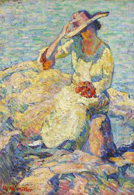 Delle Miller - Sunny Day, Gloucester